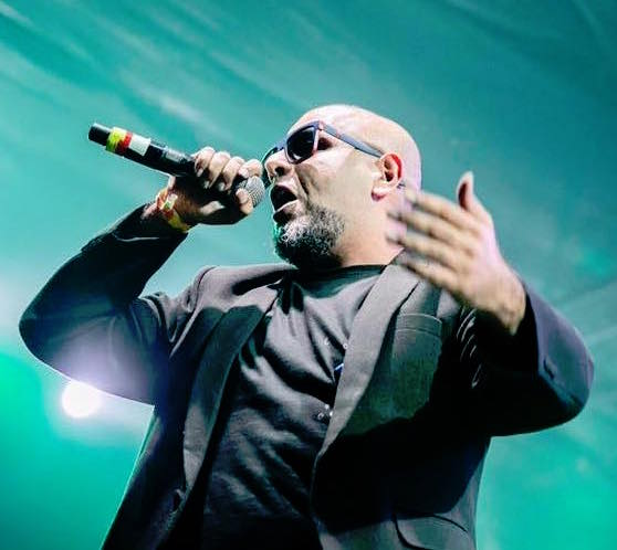 Vishal Dadlani, Bacardi NH7 Weekender 2015, New Delhi